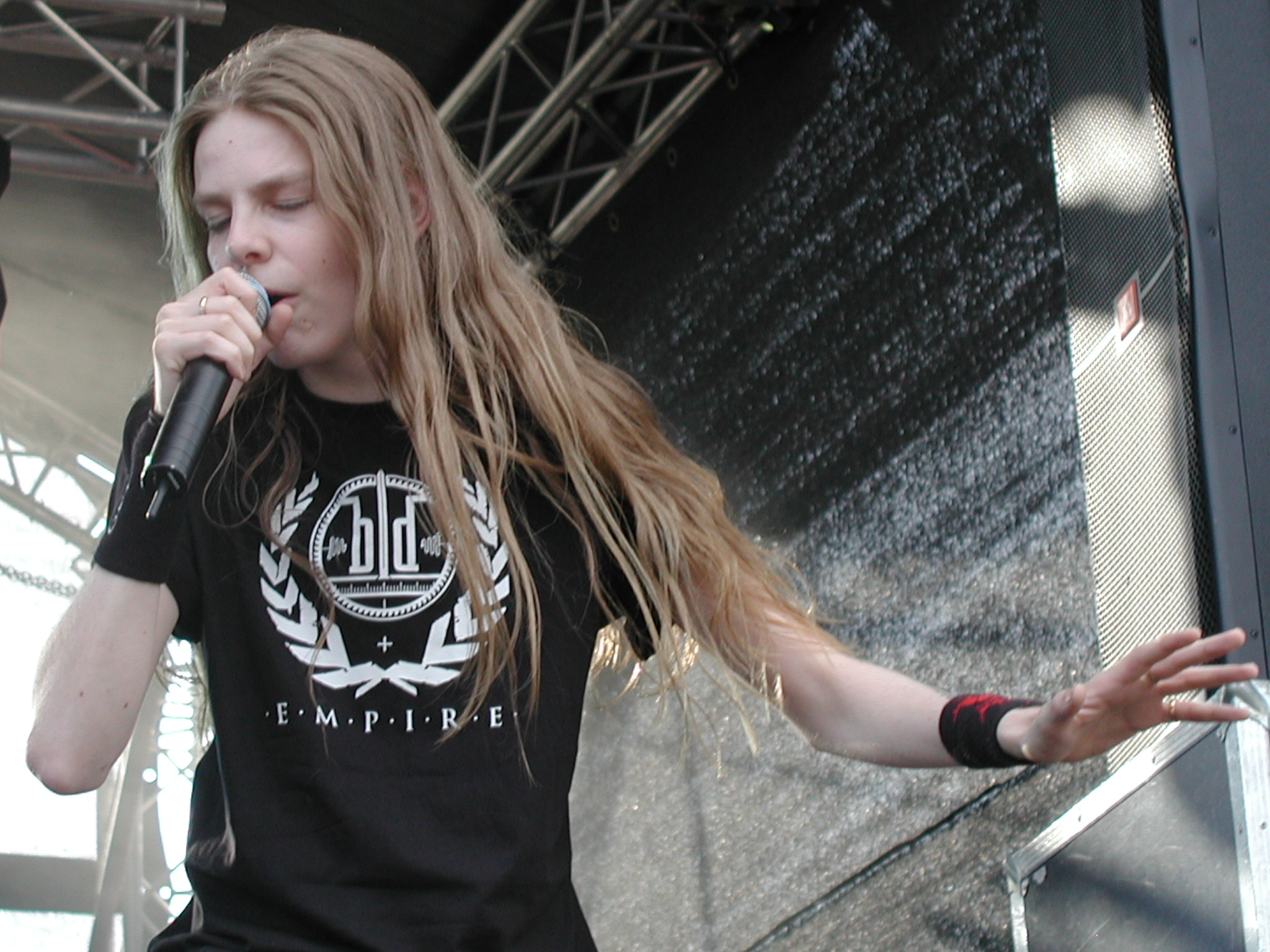 Ari Koivunen / Amoral in Tammela FINLAND 1st of April 2009. Photo: Noora Hyväri